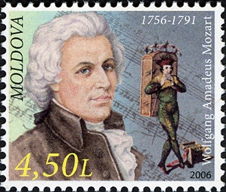 Stamp of Moldova